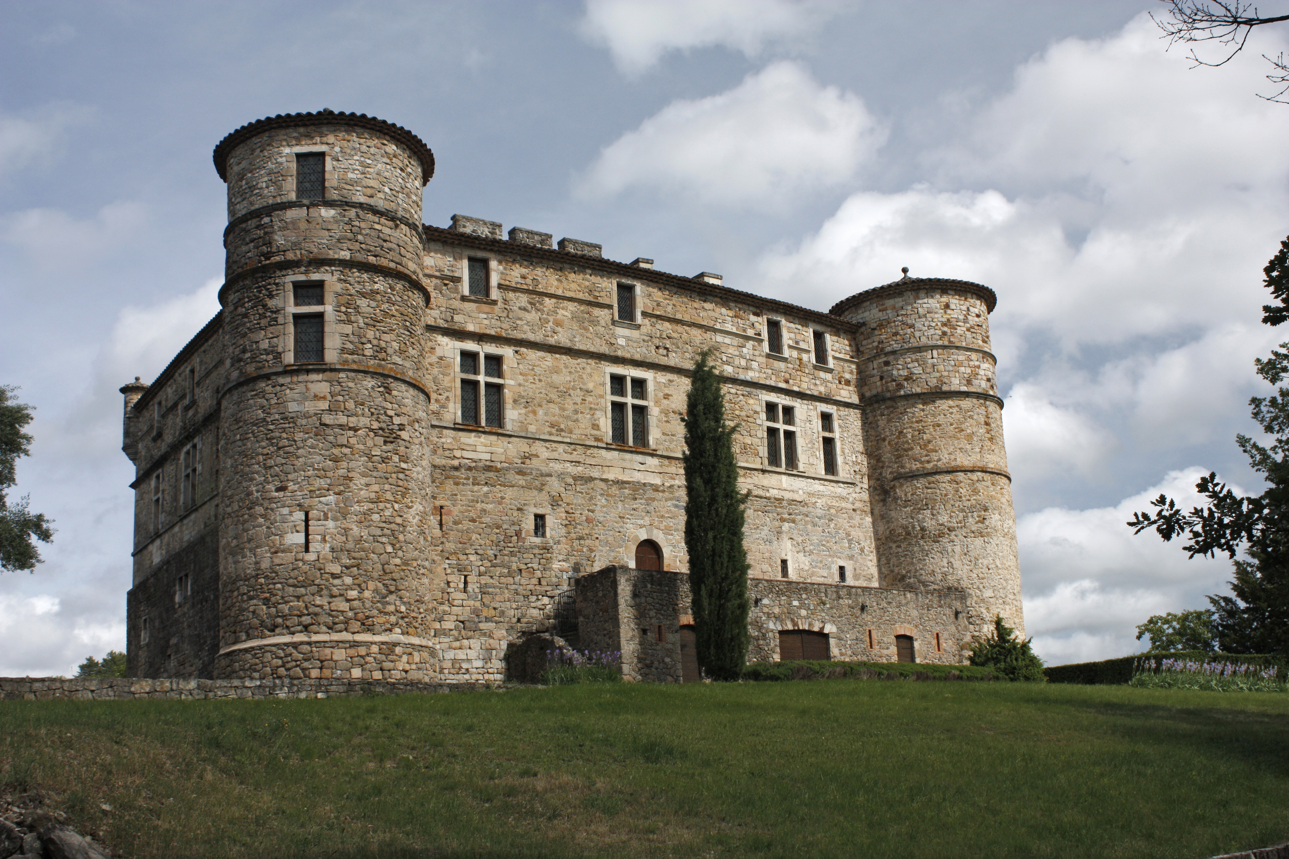 The Castellas, north and west facades.